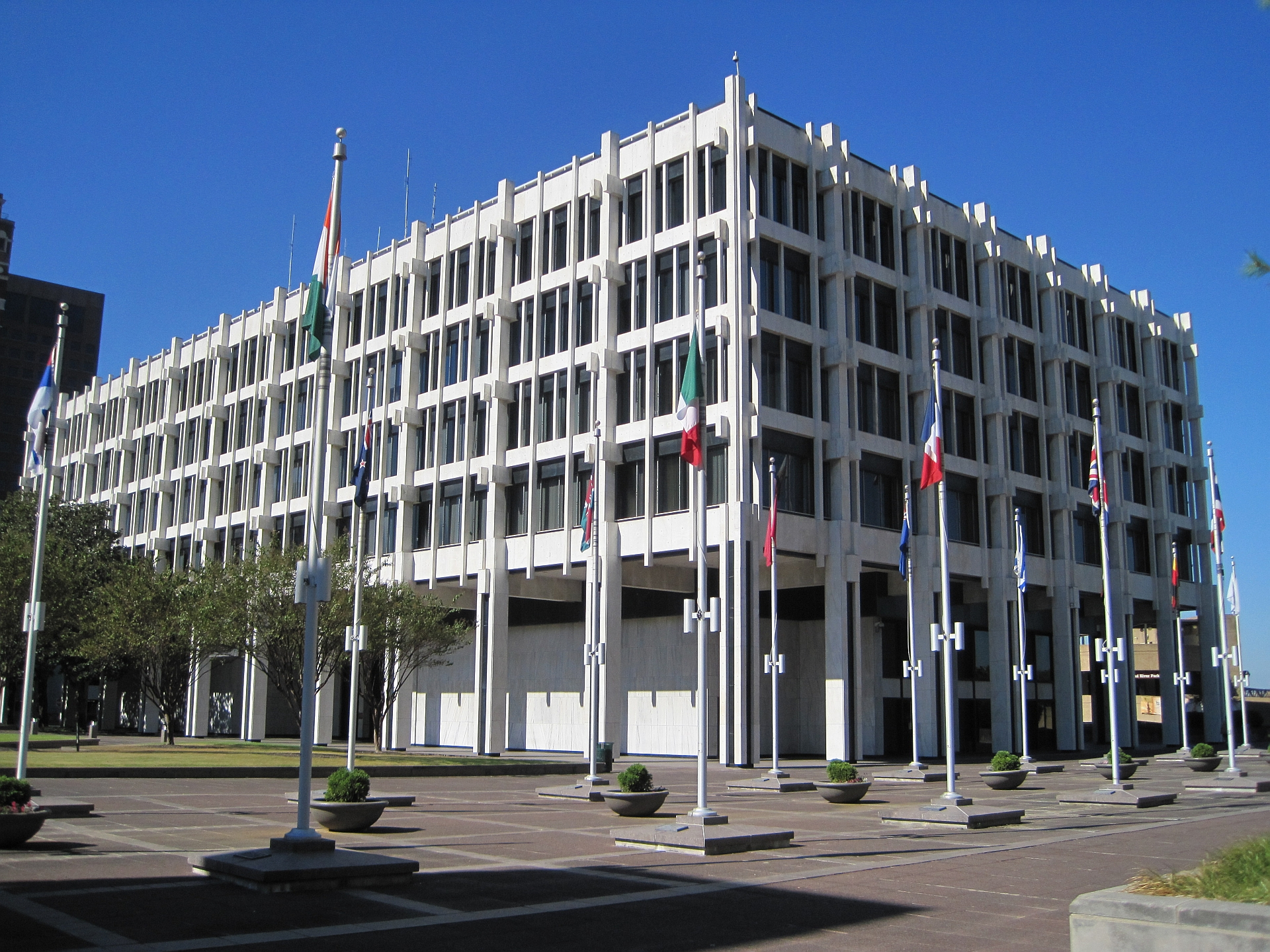 City Hall on Main Street in Downtown Memphis, Tennessee.